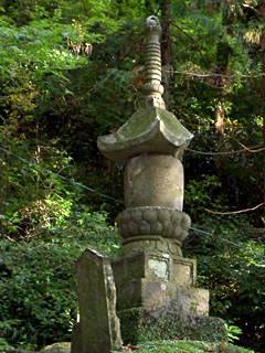 Kunisakito-01